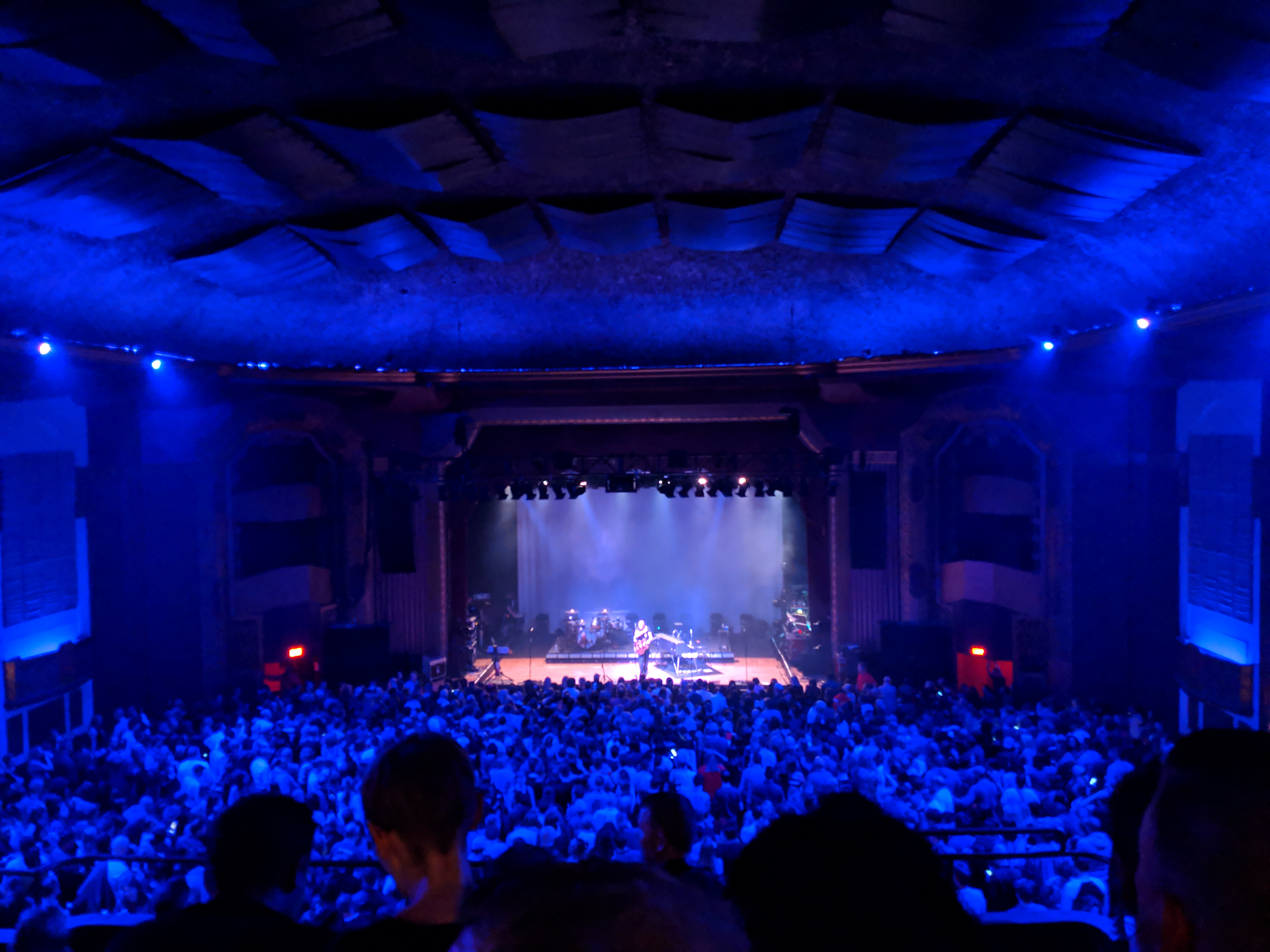 The stage at the Royal Oak Music Theatre in Detroit, MI, viewed from the balcony